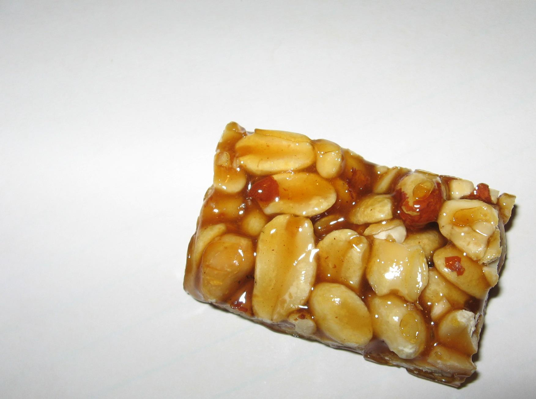 Pé de moleque Brazilian treat public content, took by me